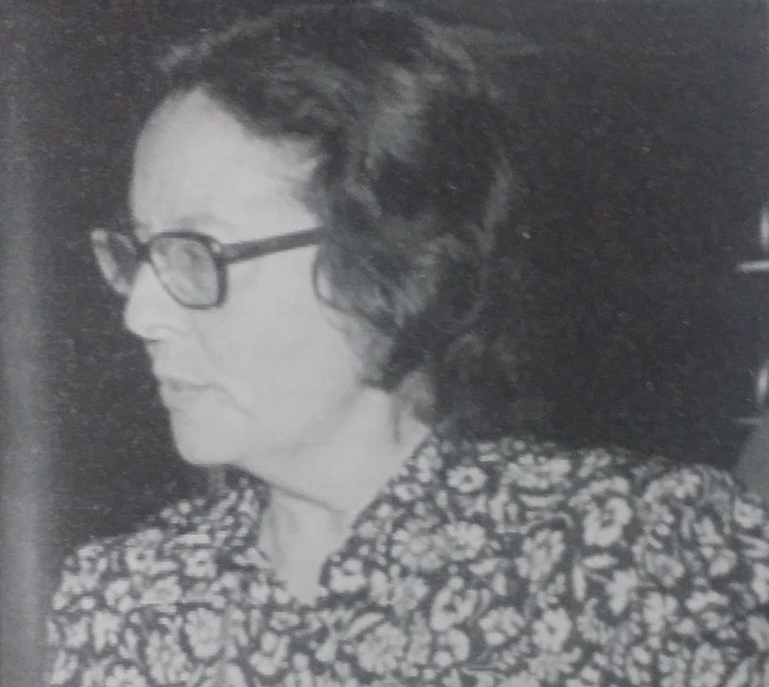 Gladys Adda (1921-1995), Tunisian Feminist